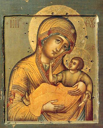 "Prayer of Vasilij" - Icon of Virgin Mary carried by St. Vasilij of Rjazan